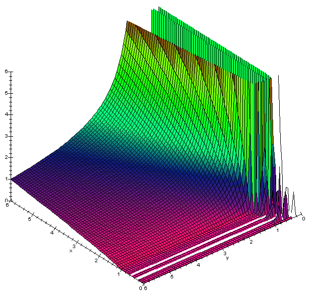 Graph of a function x + W ( − x / e x ) y + W ( − y / e y ) {\displaystyle {\frac {x+W\left(-x/e^{x}\right)}{y+W\left(-y/e^{y}\right) } emerging in the Wien's displacement law. For x = 5 {\displaystyle x=5} , y = 3 {\displaystyle y=3} the value of a function is 1 , 759780586 … {\displaystyle 1,759780586\ldots } .